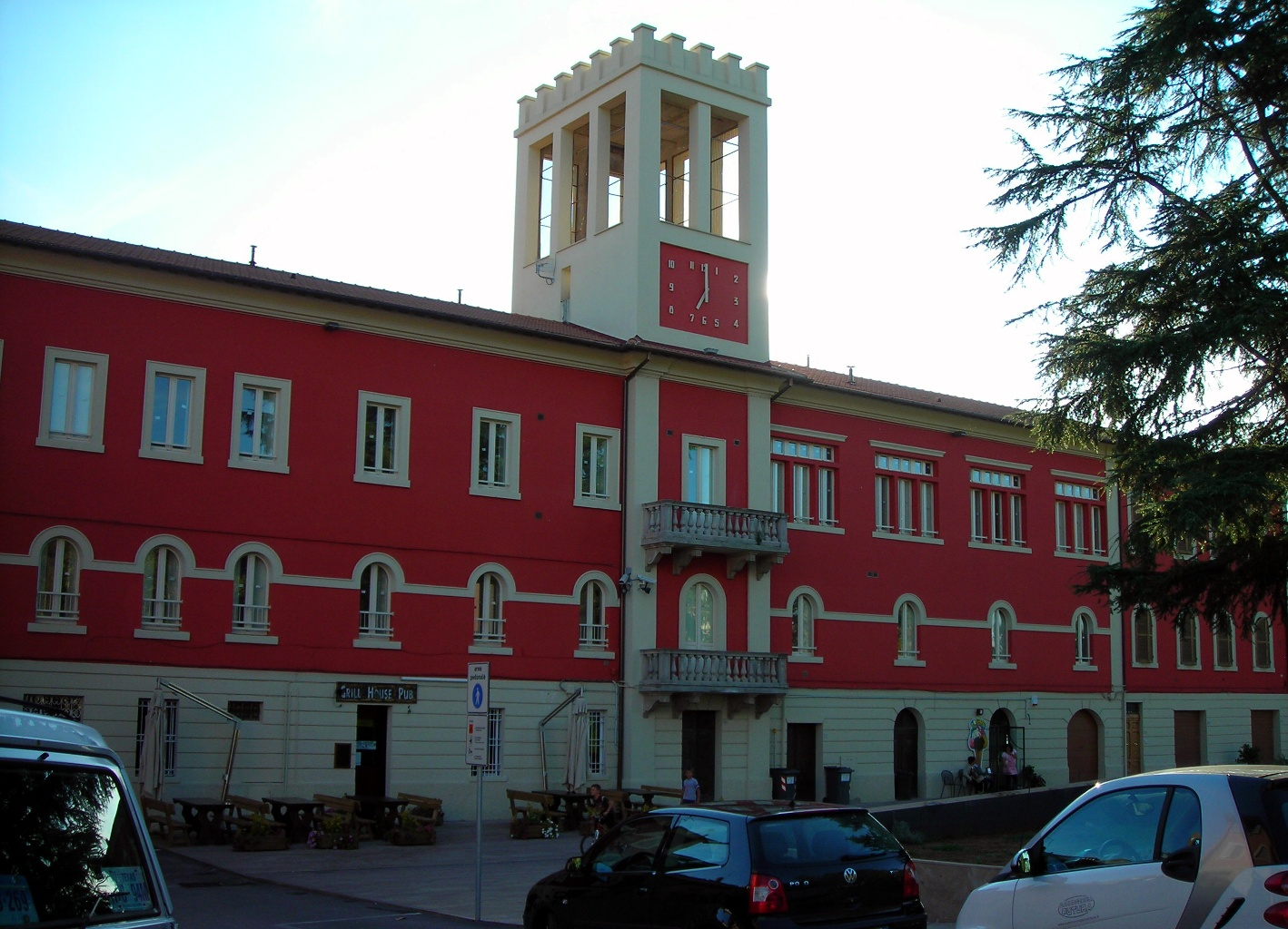 Bruna, Castel Ritaldi, Perugia, Umbria, Italia